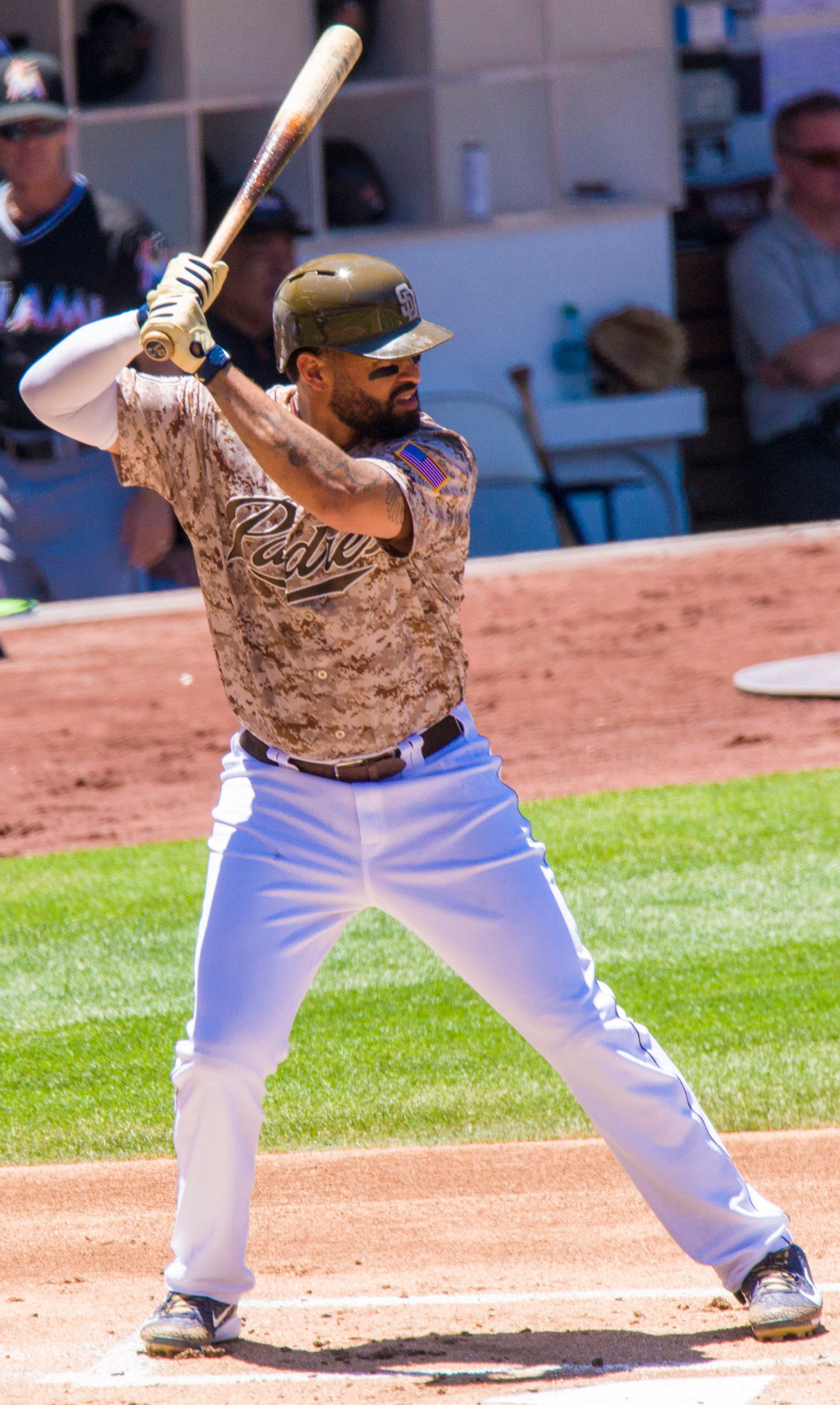 Matt Kemp batting for the San Diego Padres on July 26th, 2015